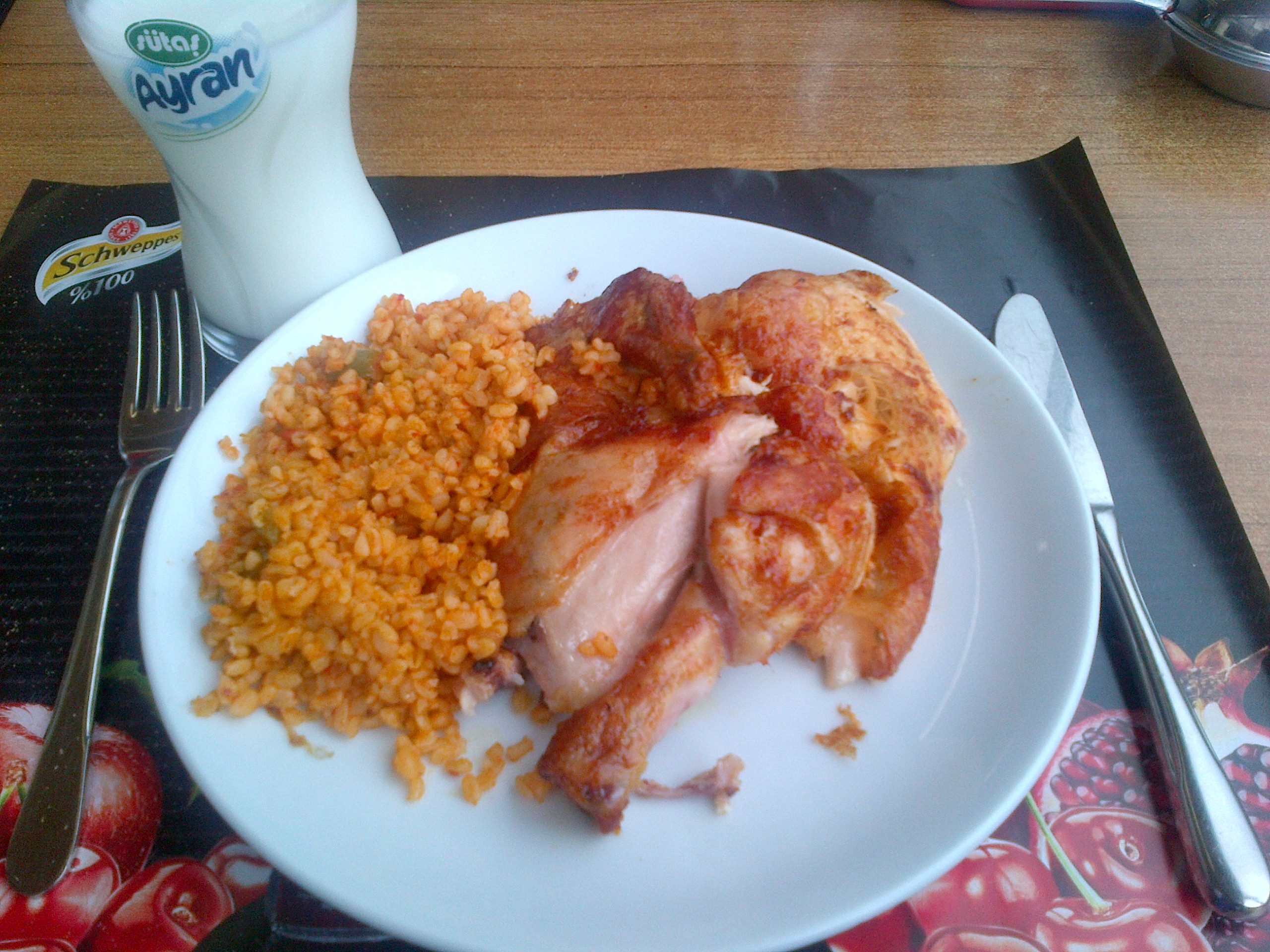 Tavuk, bulgur pilav and ayran.